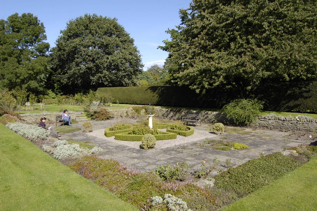 Sunken Garden... ...at the Cruickshank Botanic Garden, University of Aberdeen.